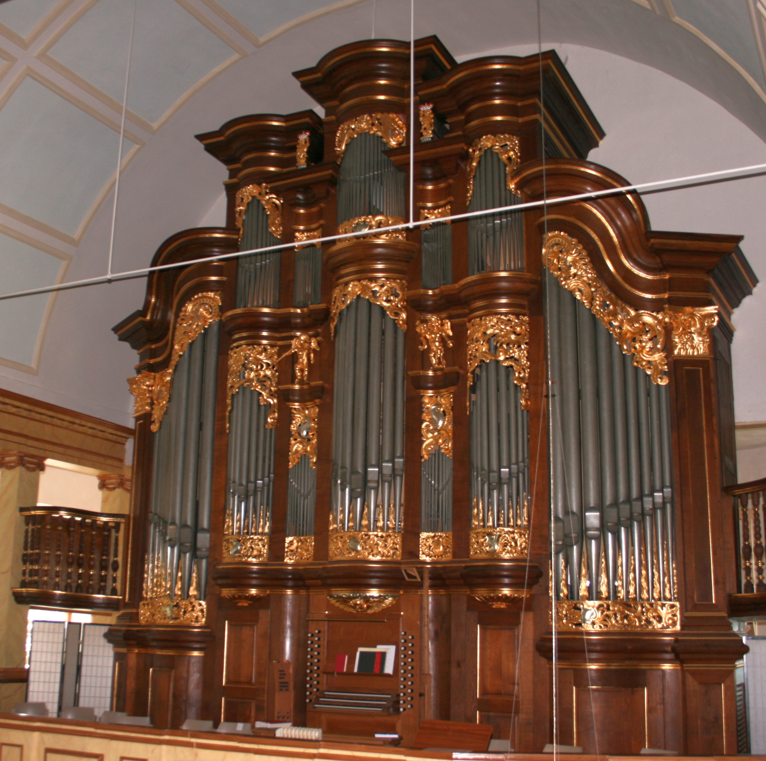 Organ in the lutheran church in Laubach, Central Hesse